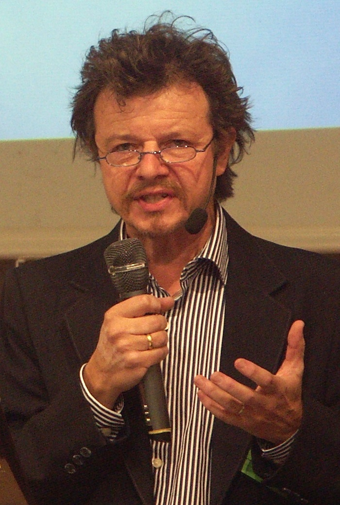 Lennart Möller of Karolinska Institute presents the Lennart Nilsson Award at the 2009 Gothenburg Book Fair.